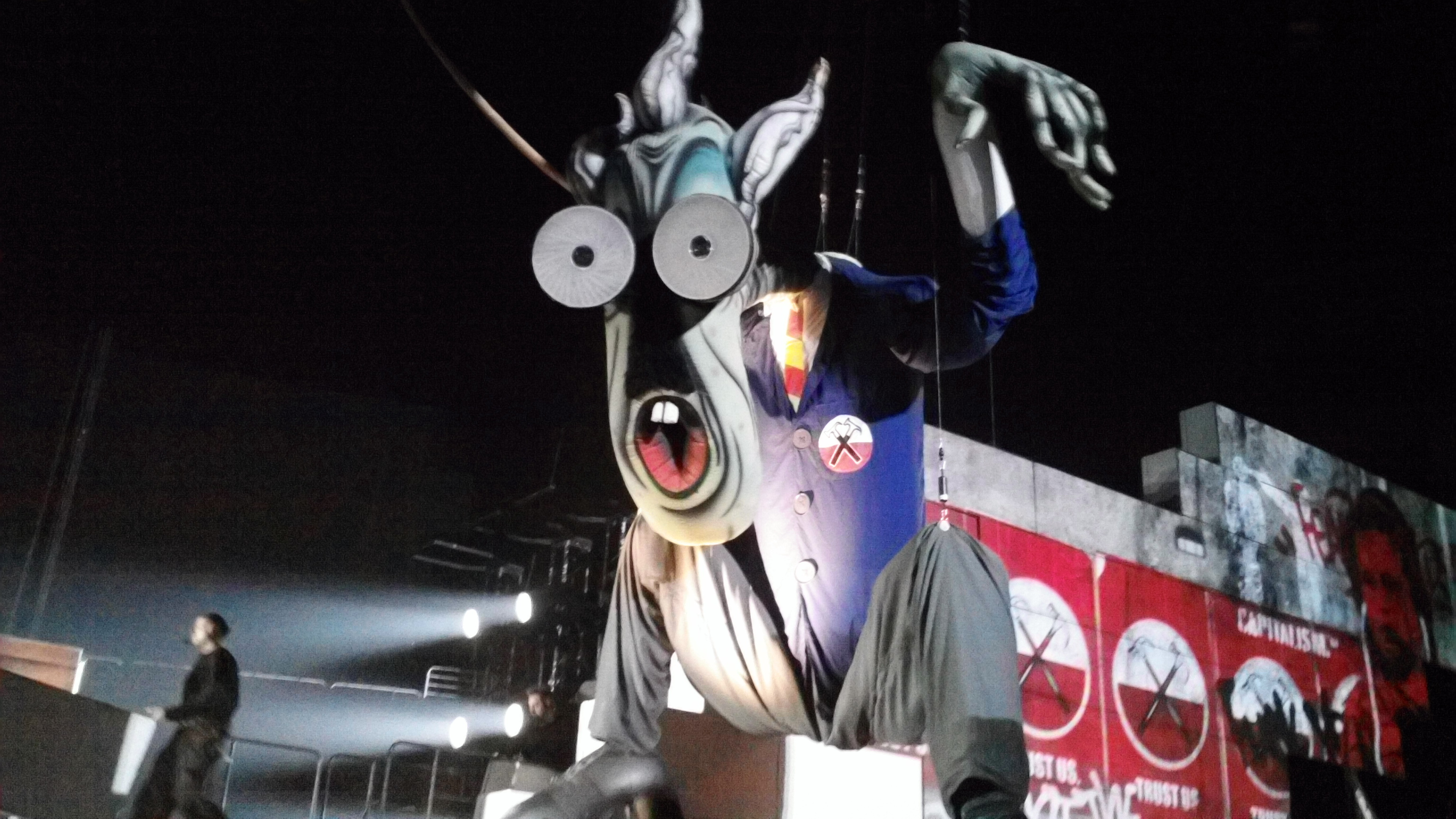 I took this photo in Kansas City from the 2nd row using my Koday Playsport 5mp camera. The band was playing "Another Brick in the Wall II" when the photo was taken.